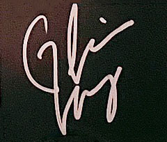 This is Gloria Tang's signature.